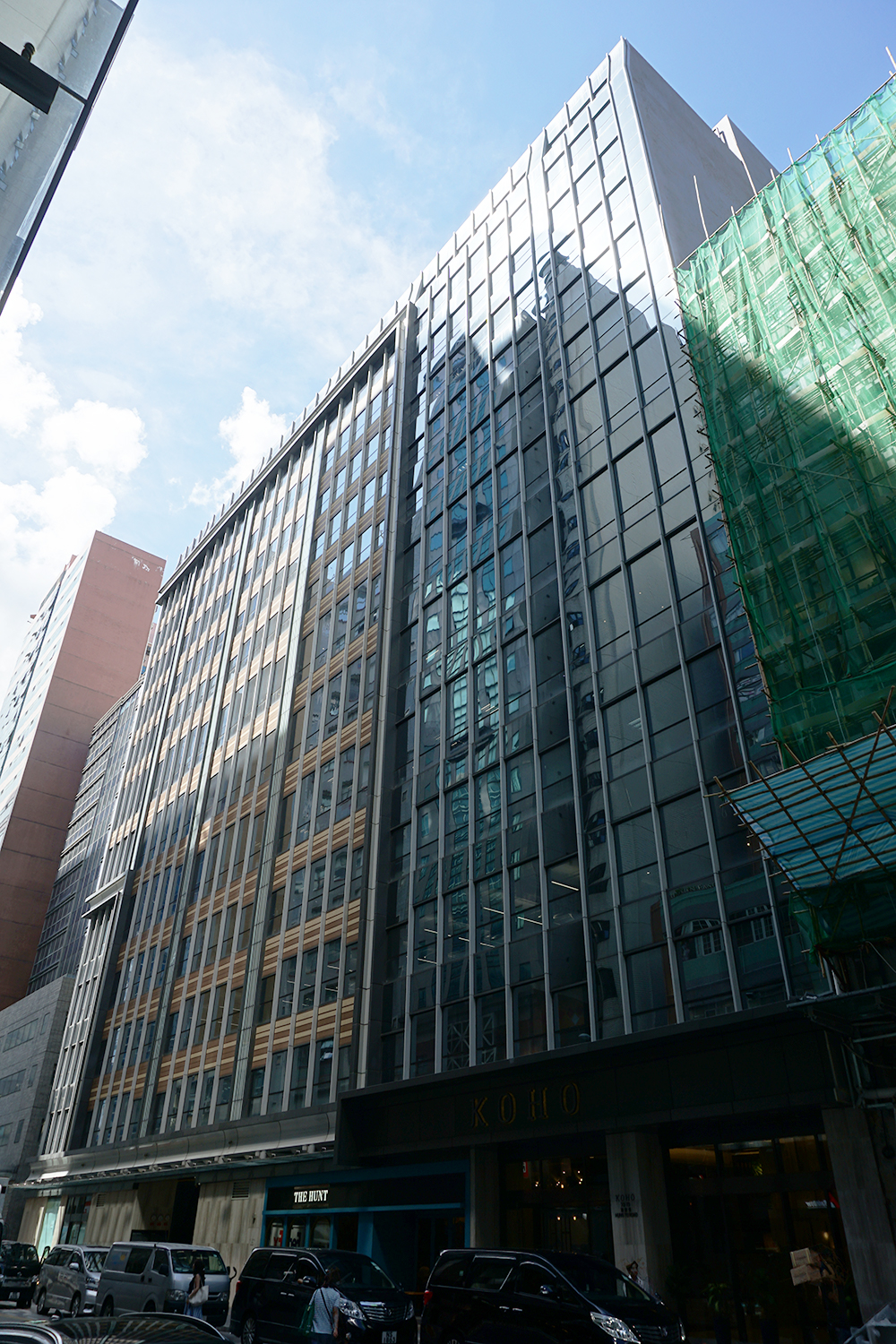 KOHO in Kwun Tong, Hong Kong.